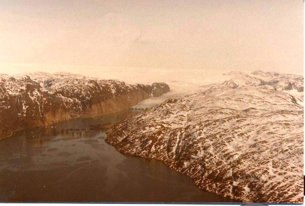 View of the Arsuk Glacier and the Inland ice in Arsuk Fjord, in South Greenland. Photo by Jan Kronsell